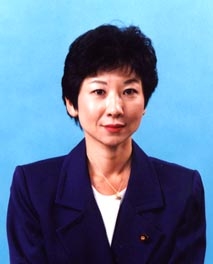 Seiko Noda was inaugurated as Minister of Posts and Telecommunications on July, 1998.